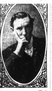 Portrait of Robert Whitaker from late 1800s newspaper.